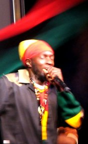 Jamaican reggae musician Sizzla Kalonji. Taken by Chrysaora (Christina Xu) in June 2007 at the Portmore Awards. The picture is under (CC) BY-SA and is uploaded by the photographer to Wikipedia as well. Also available at